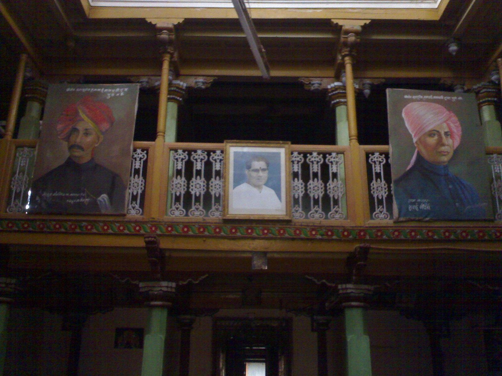 Wade at Kundgol Source and Author : Manjunath Doddamani, Gajendragad / Hubli, Karnataka(North), India.